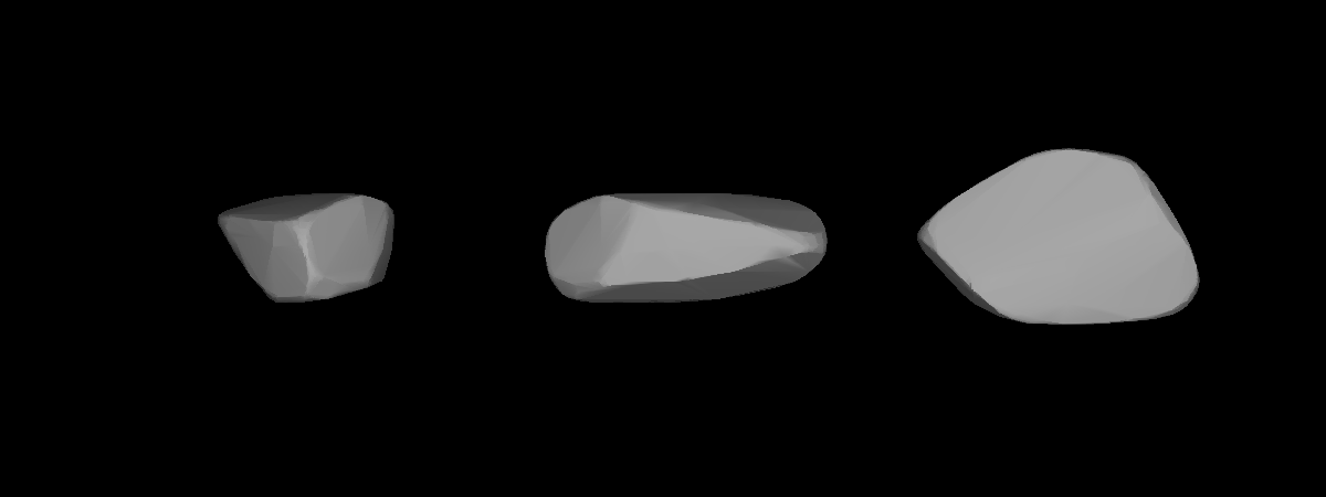 A three-dimensional model of 819 Barnardiana that was computed using light curve inversion techniques.